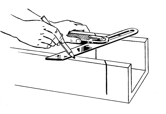 line art drawing